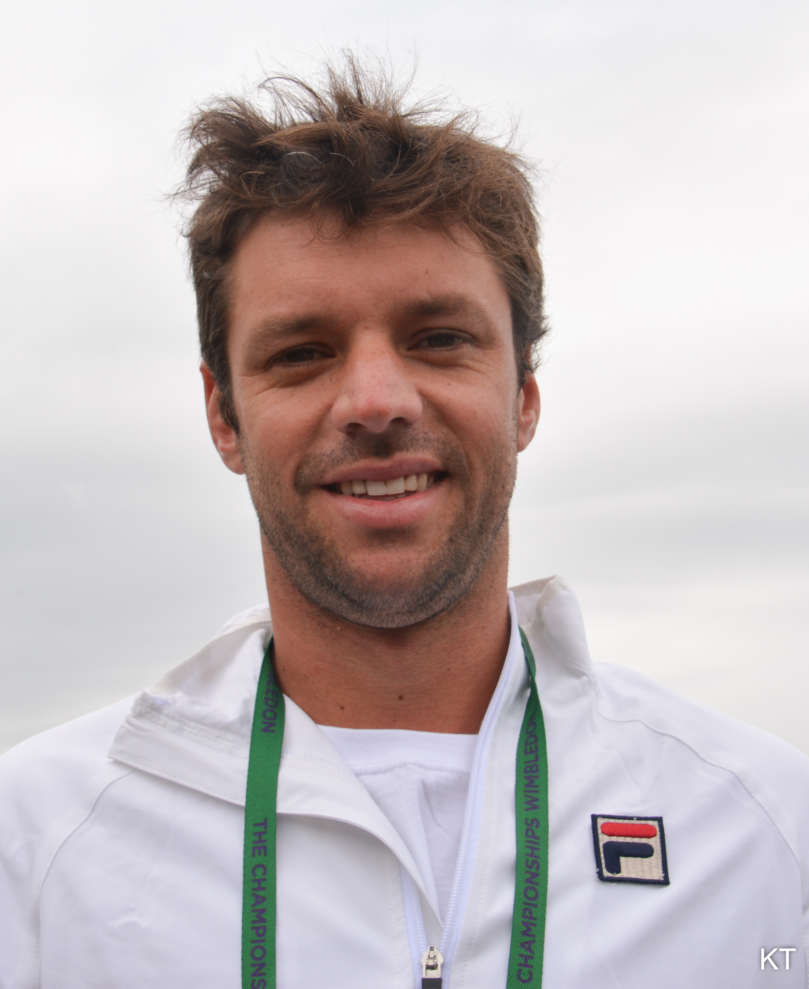 Day 1 of Wimbledon qualifying 2015